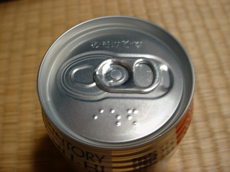 A can with Braille letters